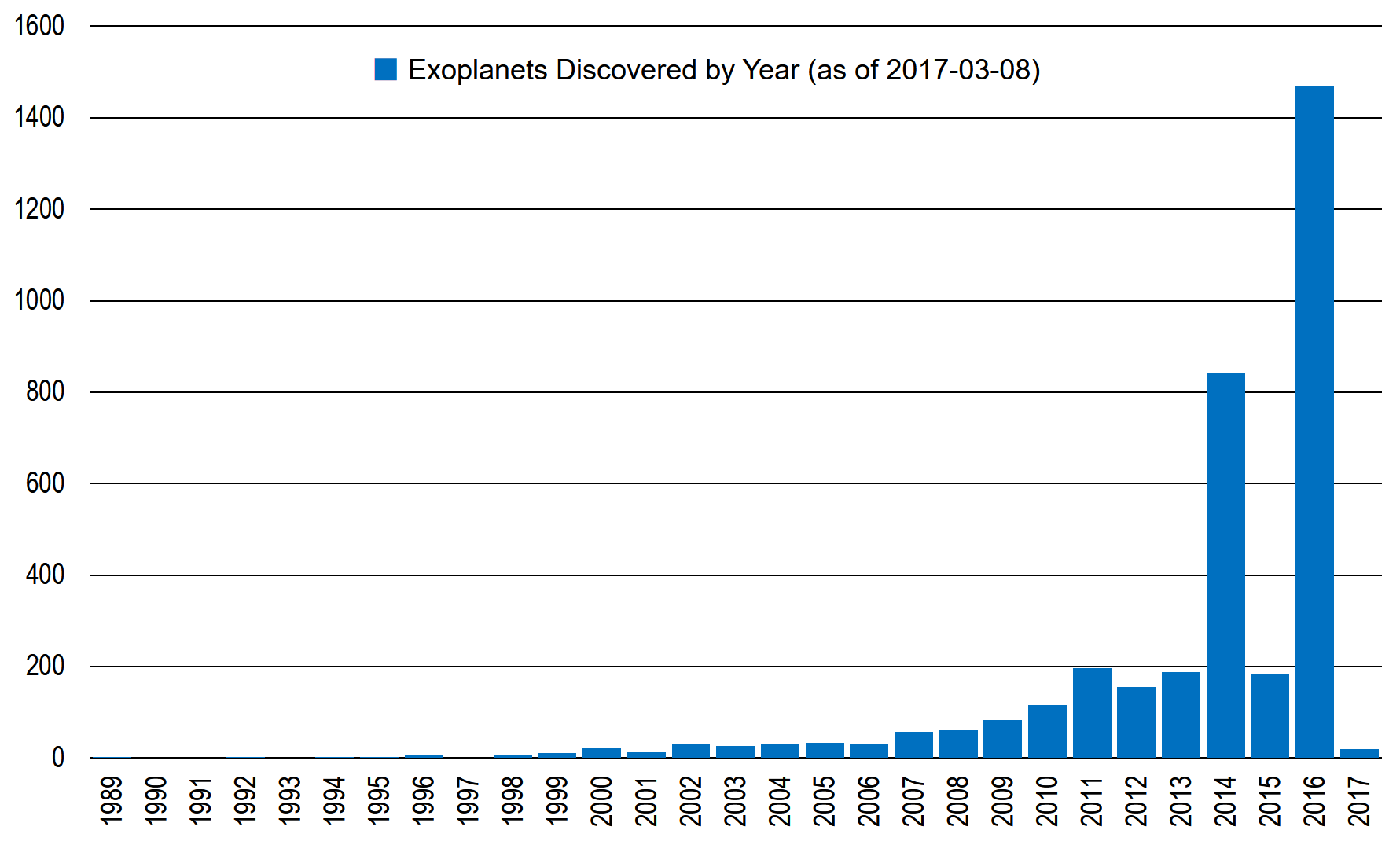 Histogram Chart of Discovered Exoplanets as of 2017-03-08